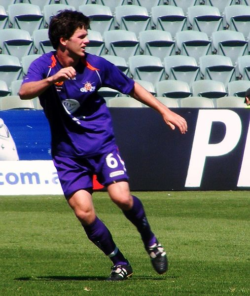 PG 2010